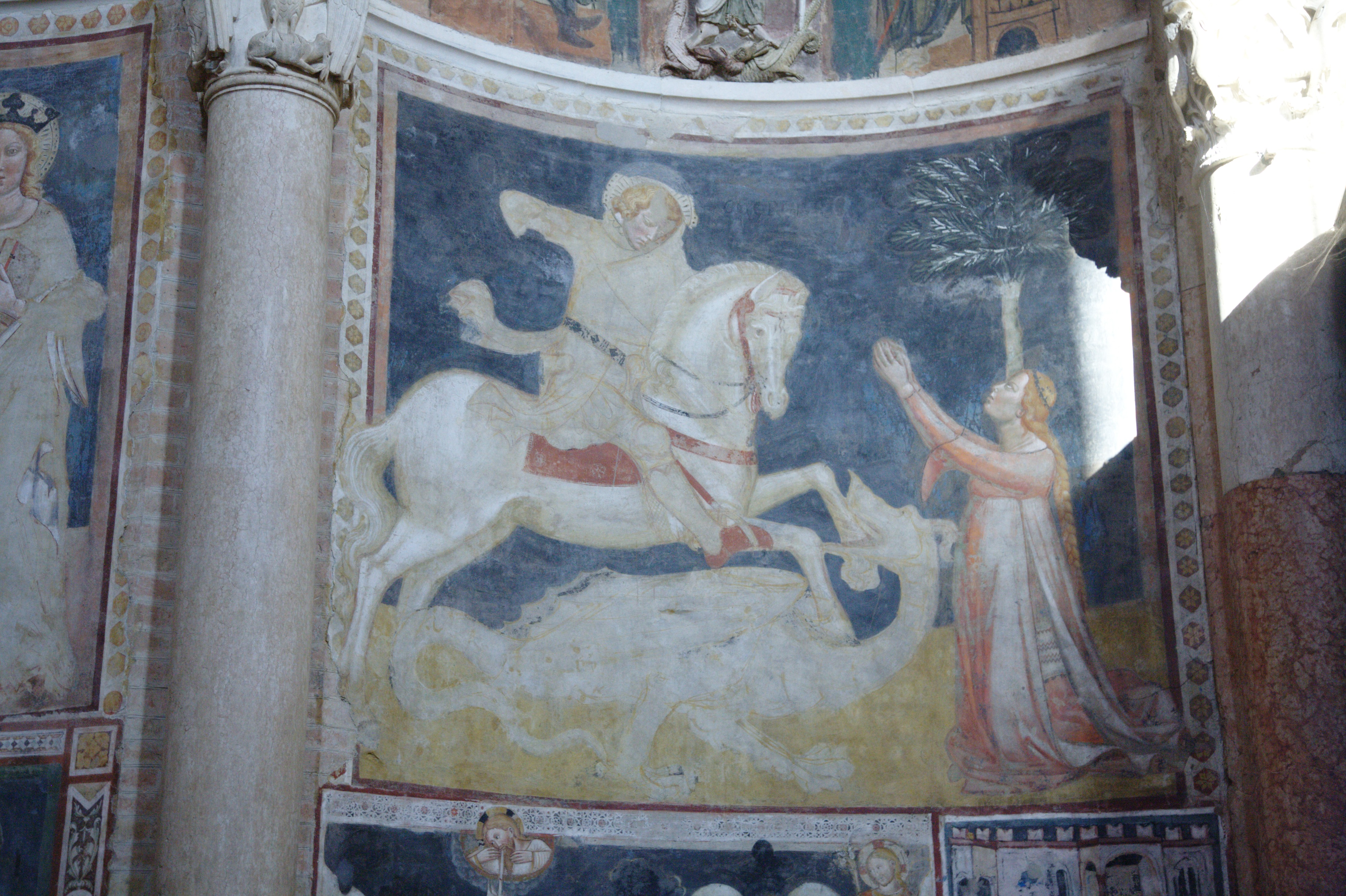 From the interior of the Baptistry of the Duomo in Parma